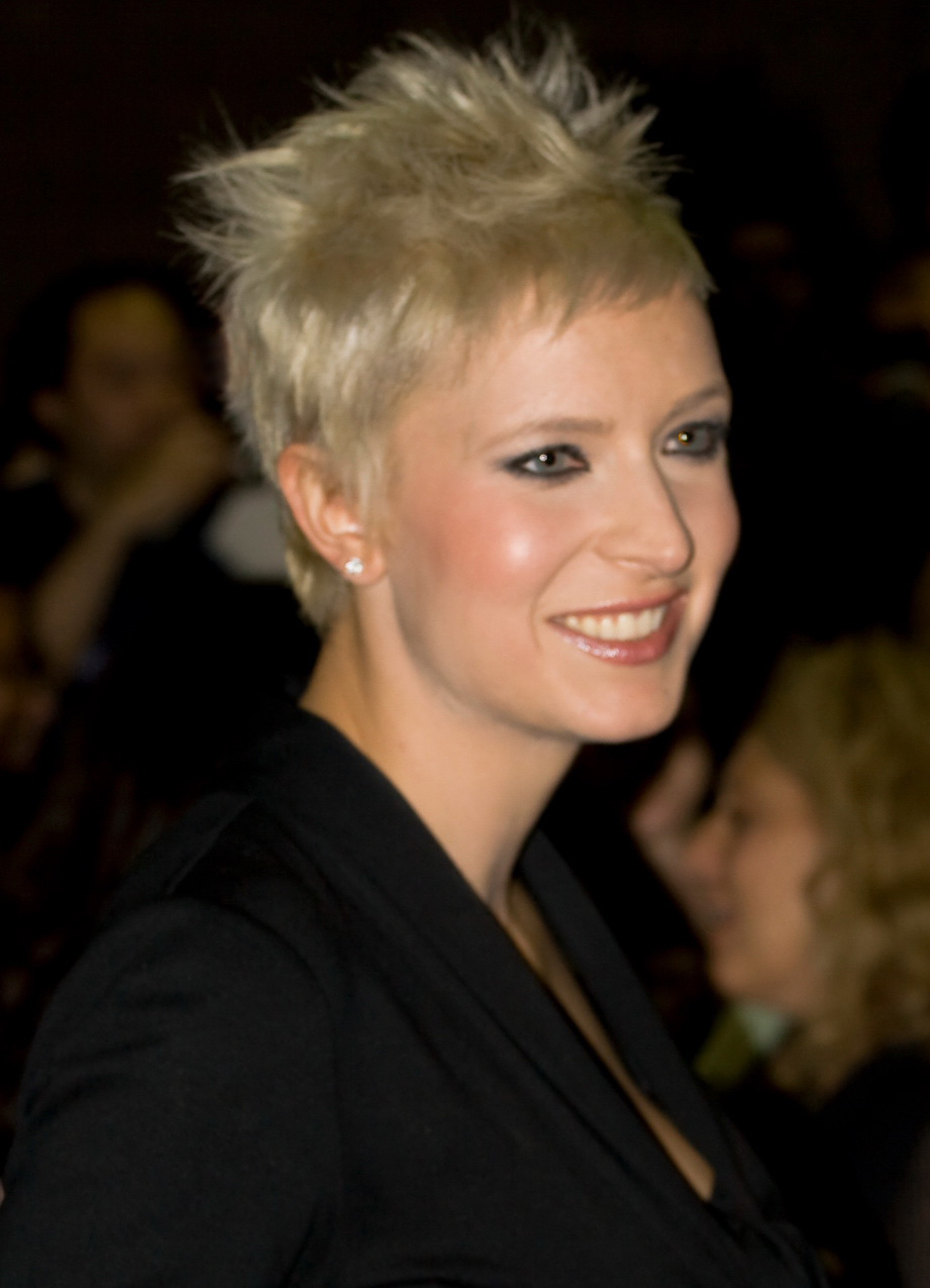 Diablo Cody at the premiere of Jennifer's Body, during Midnight Madness at the Toronto International Film Festival, 2009.